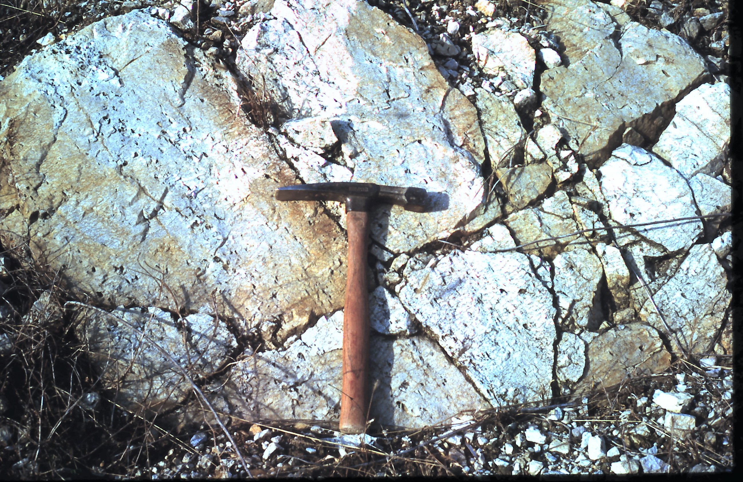 Ridgeley Member of the Old Port Formation at outcrop along Route 30 cutting through Warrior Ridge north of the town of Everett, Bedford County, Pennsylvania. Rock hammer for scale.